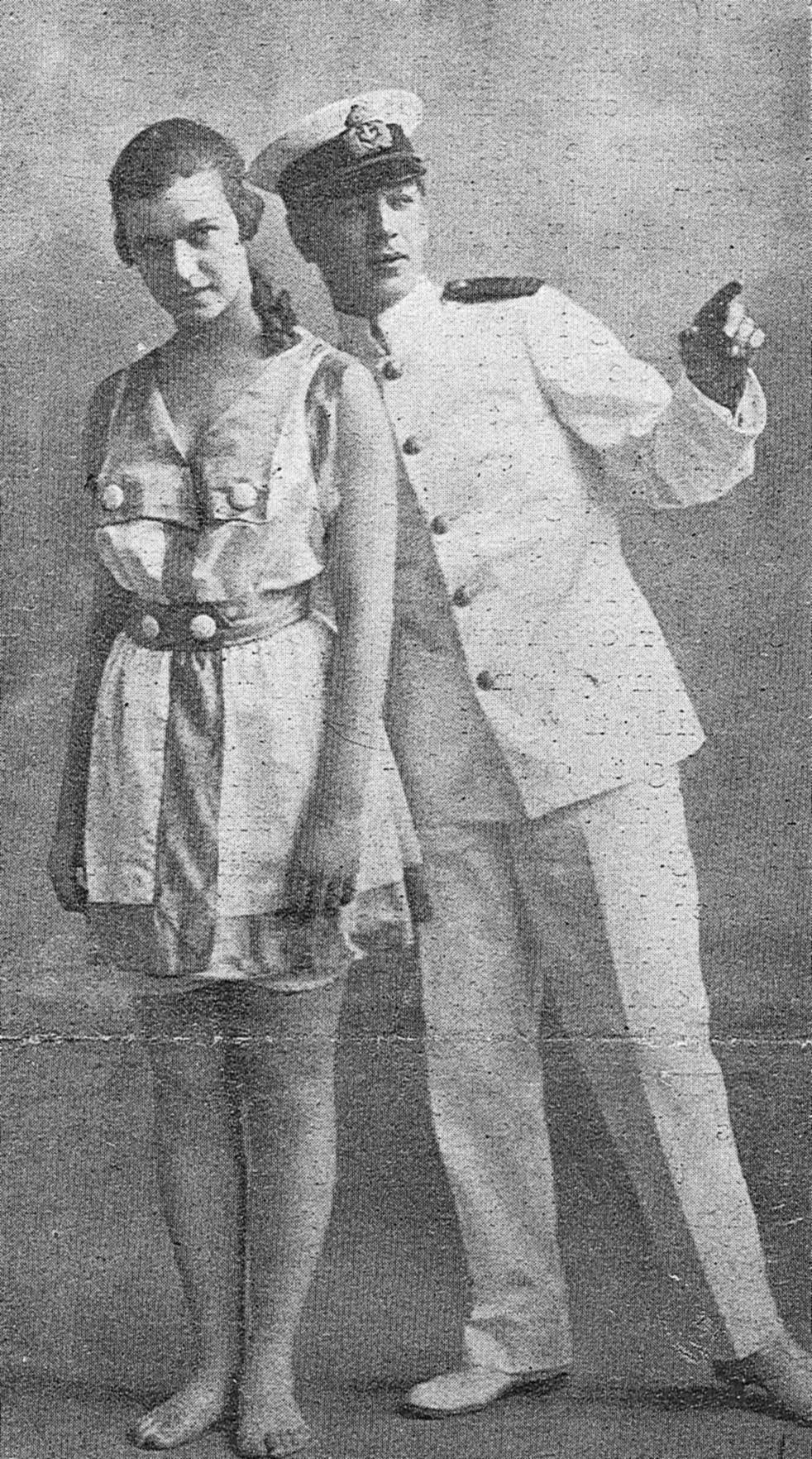 Calle Hagman (1890-1949), Swedish actor, singer and comedian; here with an unidentified female co-star in the autumn revue of 1916 at Folkteatern in Gothenburg.